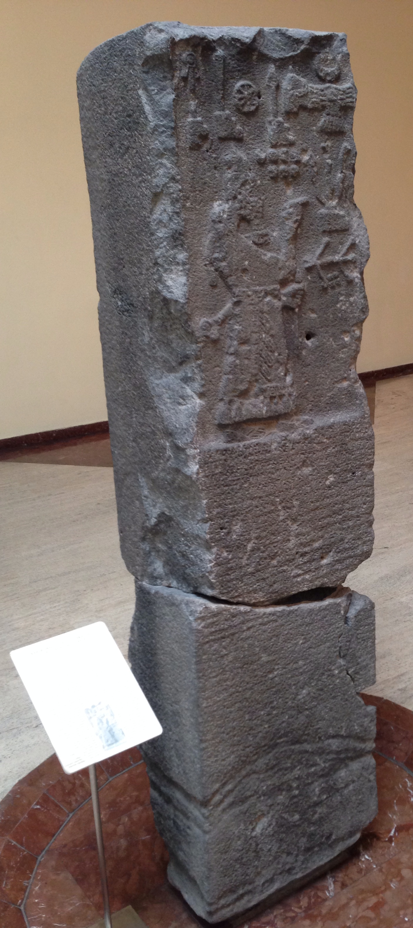 Sabaa Stele at the Istanbul Archaeological Museums